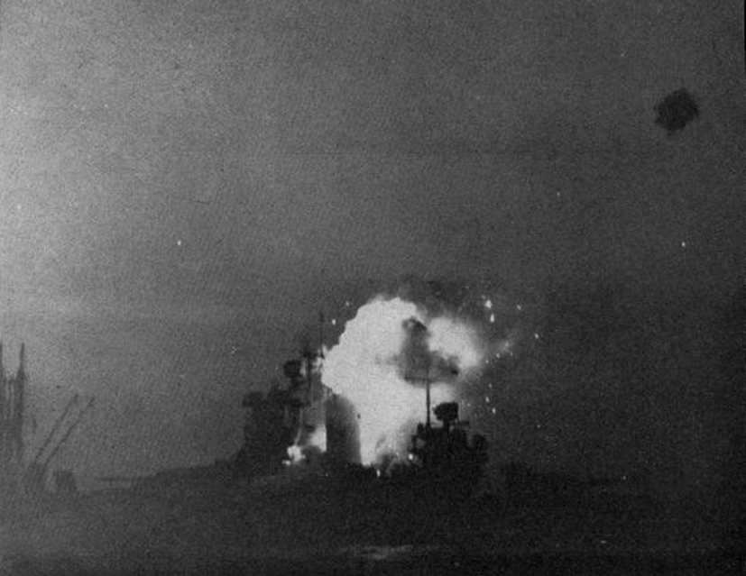 The U.S. Navy battleship USS New Mexico (BB-40) is hit by a kamikaze off Okinawa, Japan, 12 May 1945. She was set on fire and 54 members of New Mexico's crew were killed, while a further 119 were wounded.